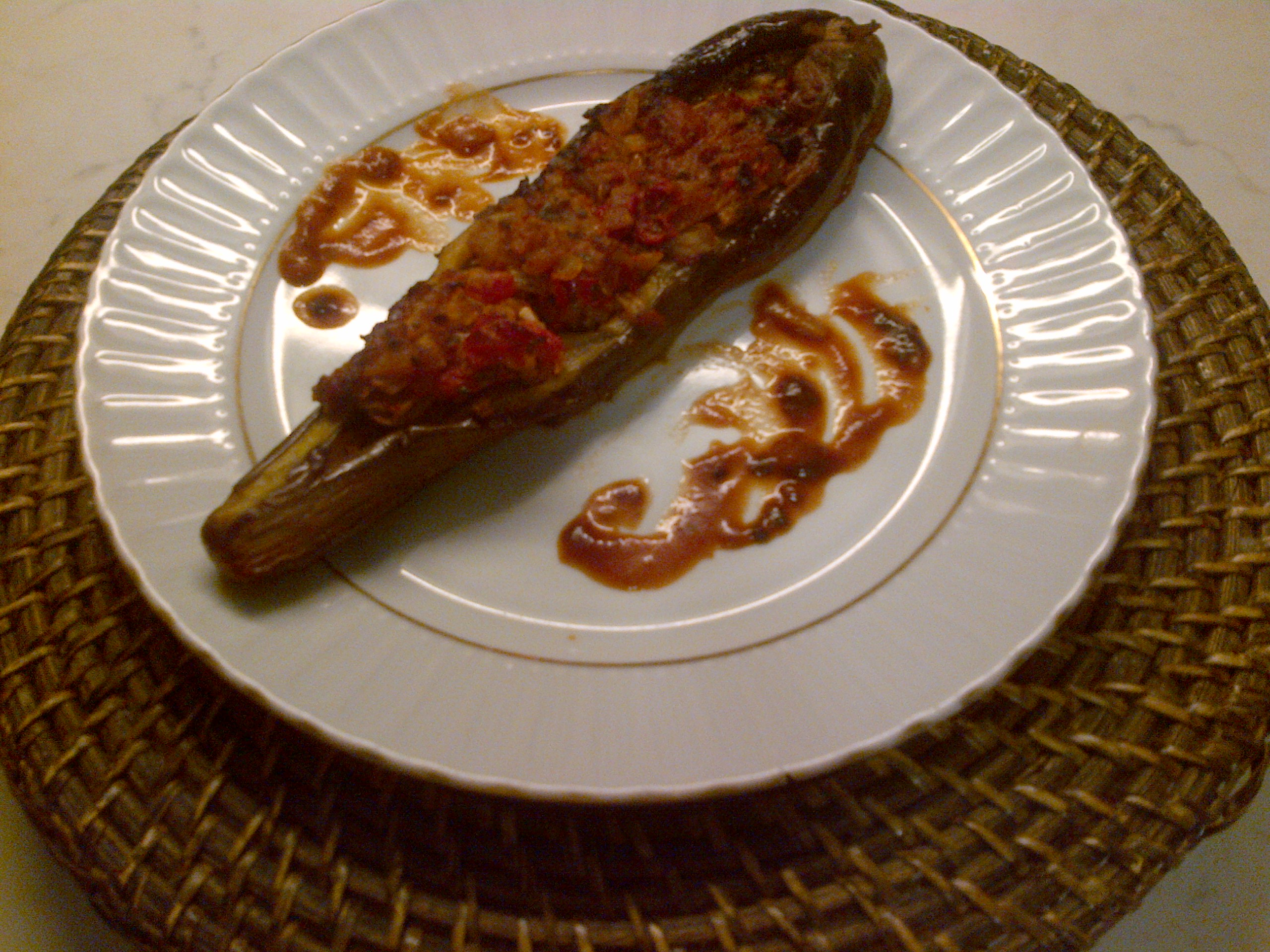 A plate of "imambayıldı" from Turkey.